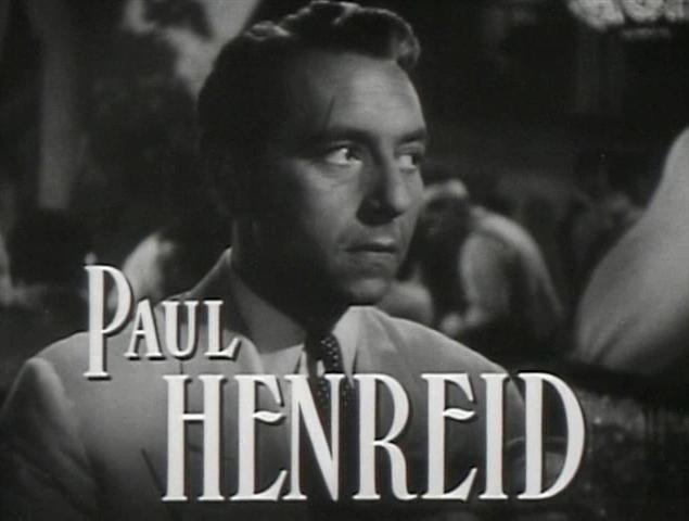 Screenshot of Paul Henreid in credits section of trailer.